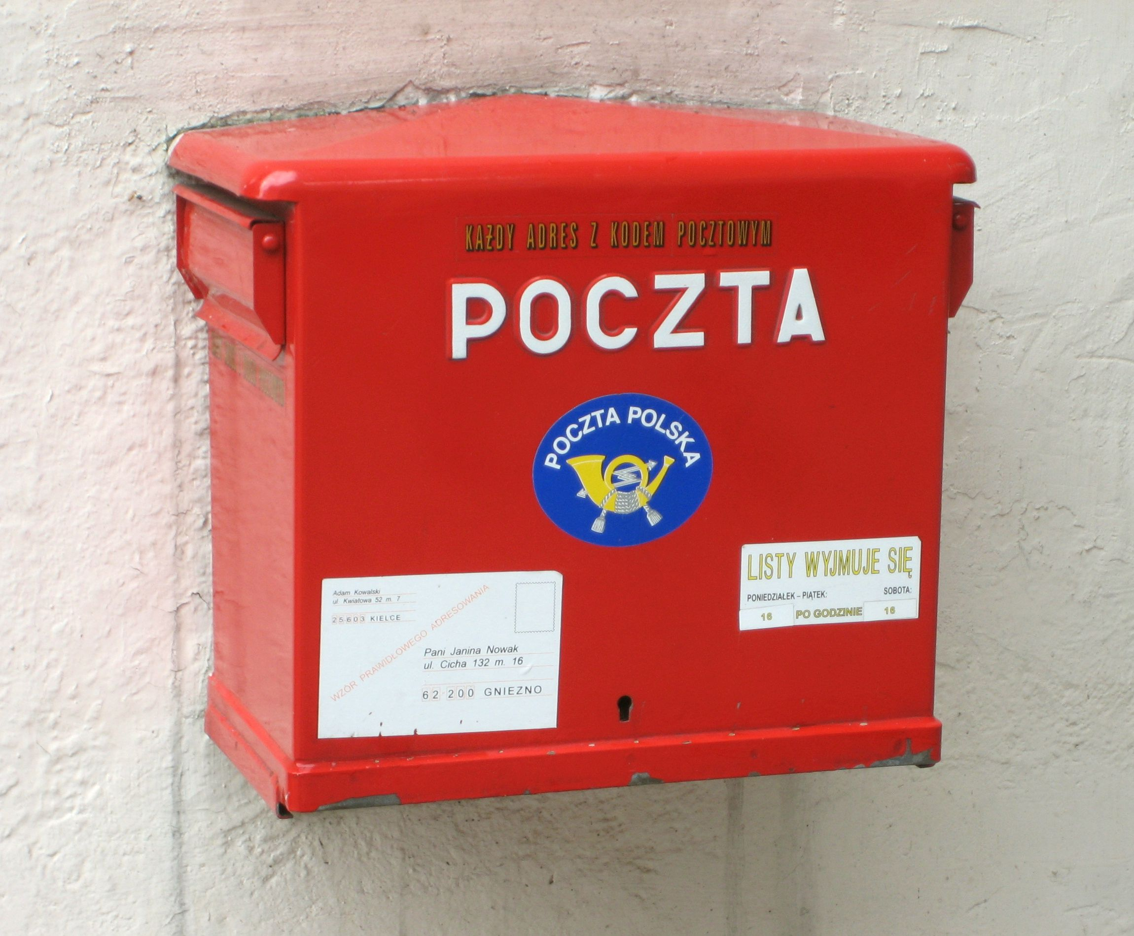 Mailbox of the Polish Post (Poczta Polska) in Jelenia Góra. Label with adress from Gniezno